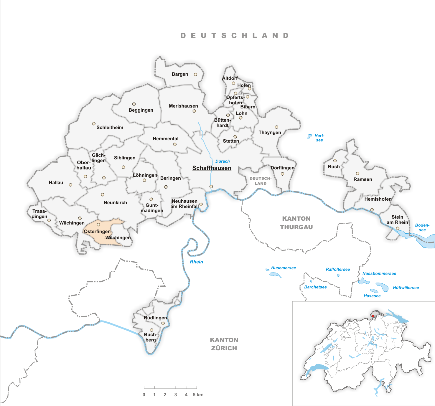 Municipality Osterfingen Artist: Tschubby